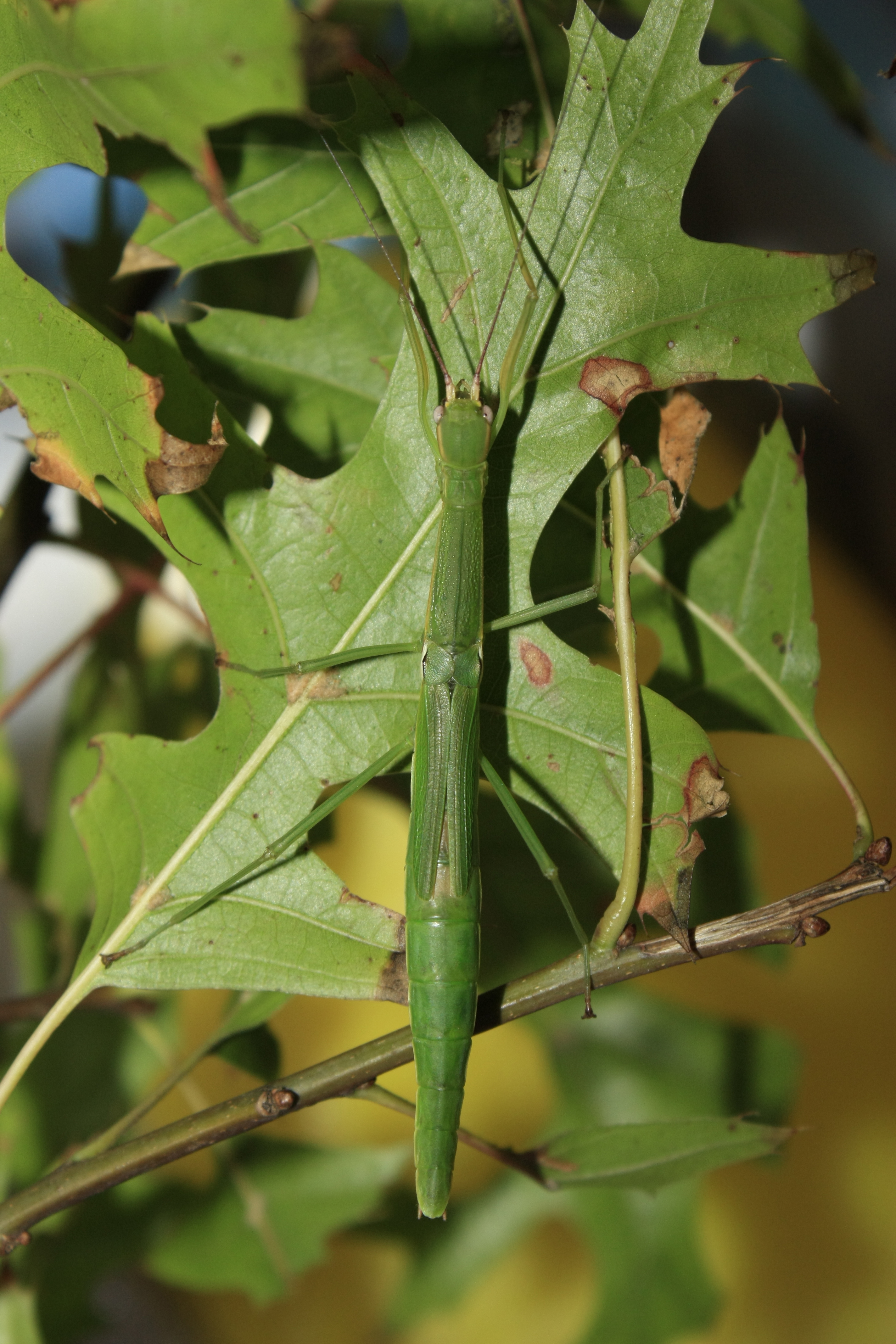 female of Micadina phluctainoides